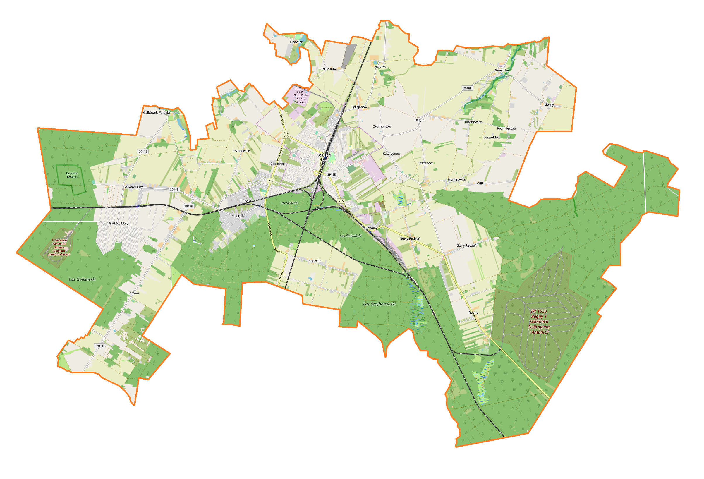 Location map